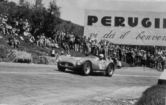 Luigi Musso in Maserati A6GCS/53 at Giro Automobilistico dell'Umbria on 6 June 1954. He ends in 2nd place.[1] Musso owned s/n 2043, so I guess it was that car.[2] This race was held 1948 to 1992,[3] and was known as the Coppa della Perugina in the late 1920s.